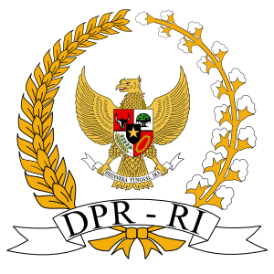 This image is an unofficial reproduction of the insignia of Dewan Perwakilan Rakyat Republik Indonesia (People's Representative Council of Republic of Indonesia).